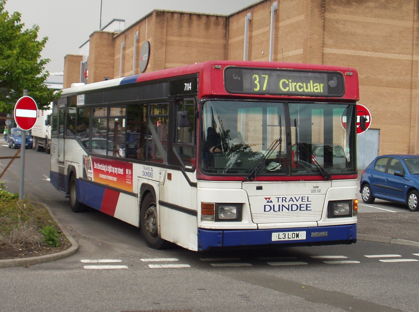 Scania N113CRL/East Lancs MaxCi low floor bus operating for Travel Dundee at Kingsway Leisure Park. It is their 7114 (L3 LOW).